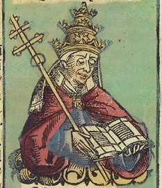 Wood cut from the Nuremberg Chronicle (Latin copy in Sao Paulo)